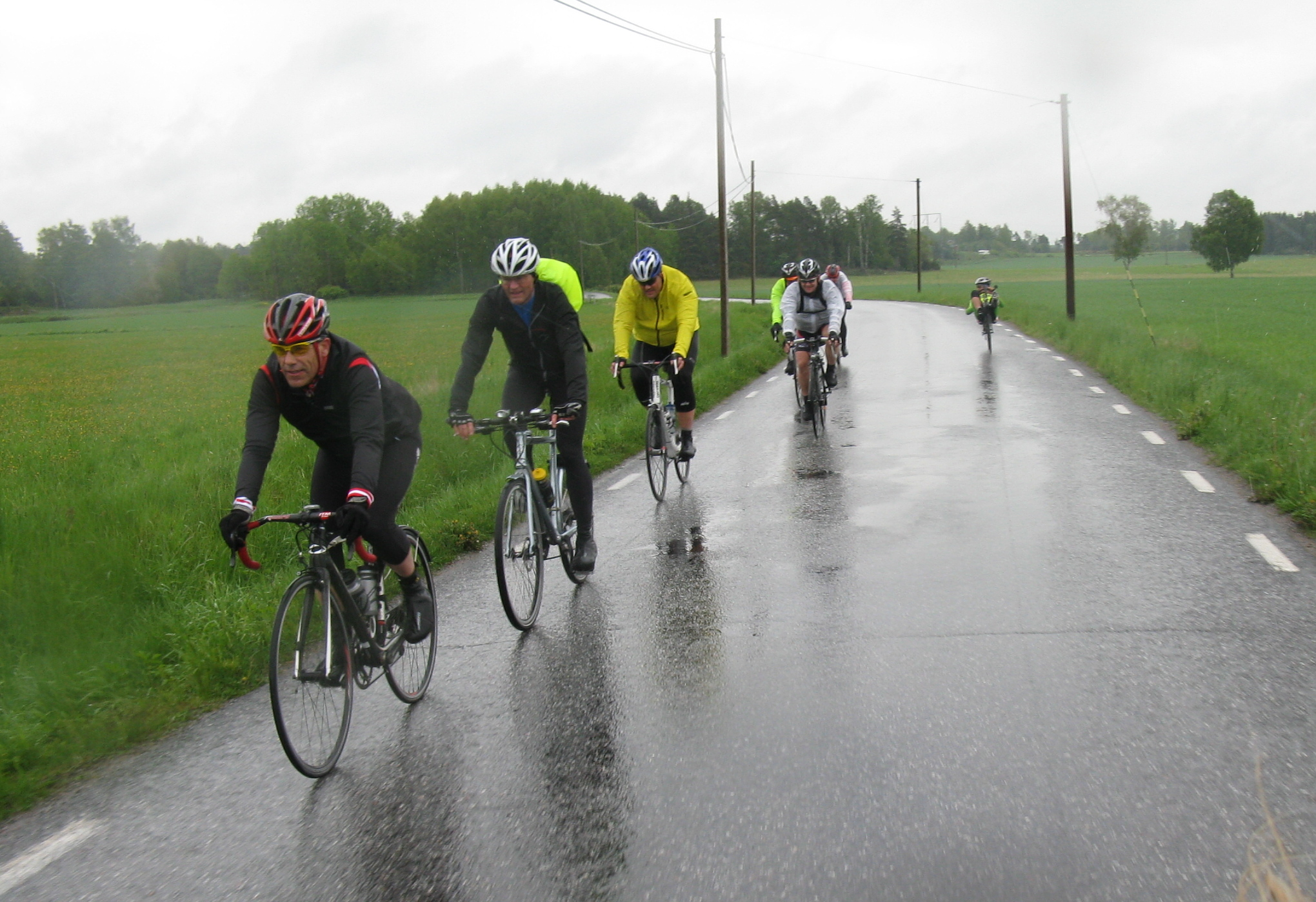 Audax goes on in all weather; riding in rain outside Skånela, Sweden on a trip with Audax 22.5 (Fredrikshof IF). Also featuring a M5 highracer.